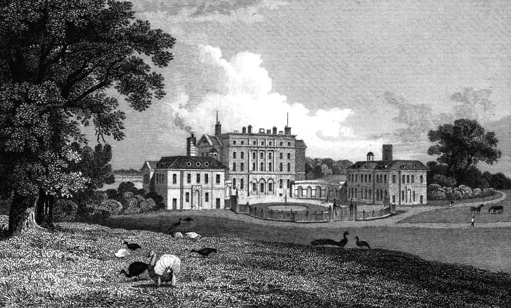 Chevening in 1830 Flickr data on 2011-08-13 Tags: old picture, Chevening, Public Domain License: CC BY-SA 2.0 User: paukrus Ruslan